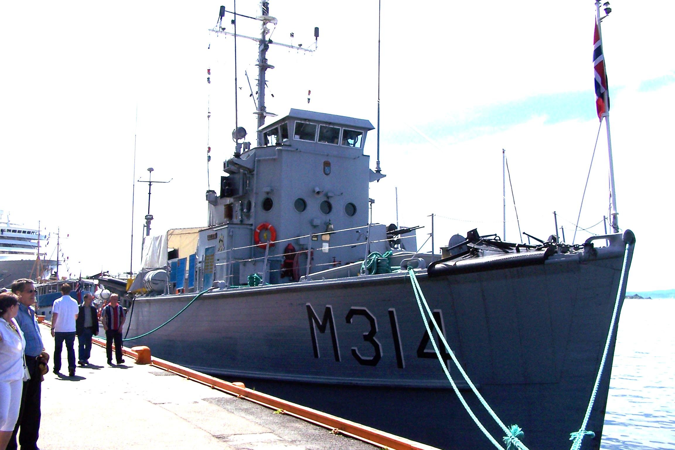 KNM Alta, former minesweeper of Royal Norwegian Navy, now a museum ship in Oslo. Photo Chris Nyborg, 19 June 2005